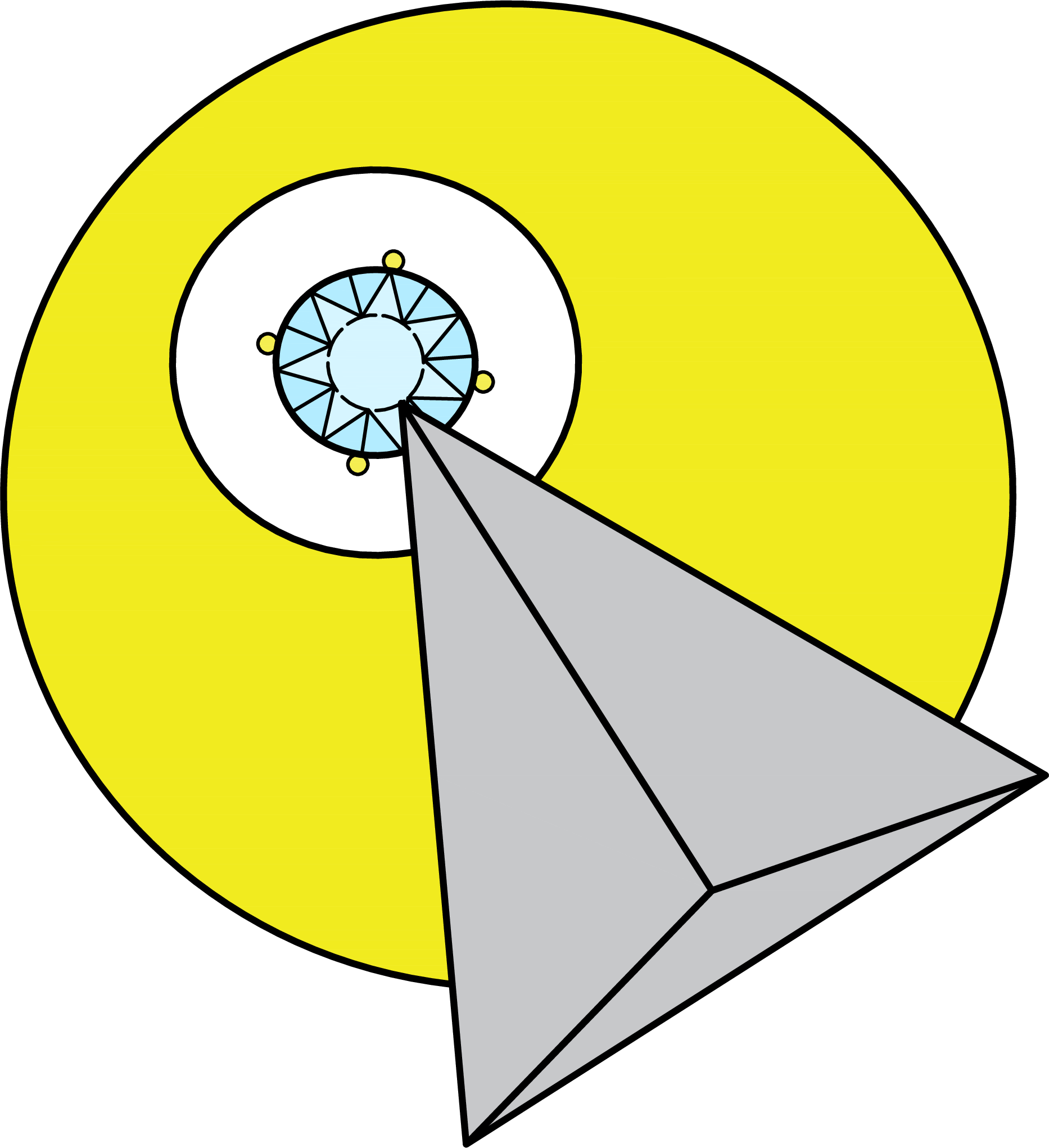 Representation of an IDIC pendant, based on a Lincoln Enterprises advertisement (1969). Description on Star Trek Fact Check. The pendant symbolise the concept of vulcanian philosophy: Infinite Diversity in Infinite Combination.